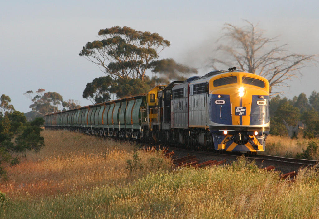 S311 - S302 - T357 - T413 - T376 on an broad gauge El Zorro grain train near Meredith, Victoria, Australia. S302 is their own loco, S311 and T376 are CFCLA, others are preserved heritage locos, hoppers from ARG and GWA.